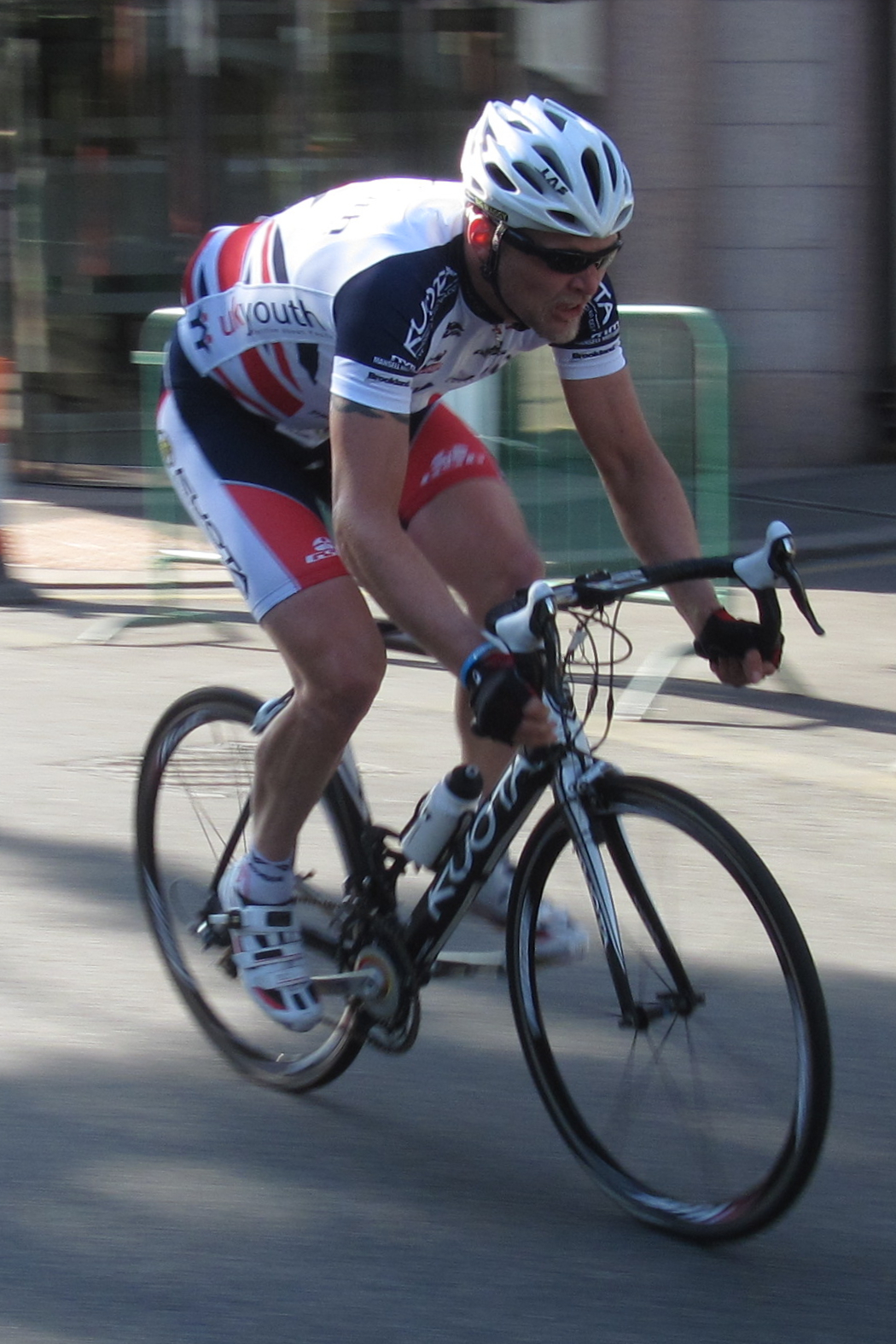 Jersey Town Criterium bicycle races, Saint Helier, Jersey